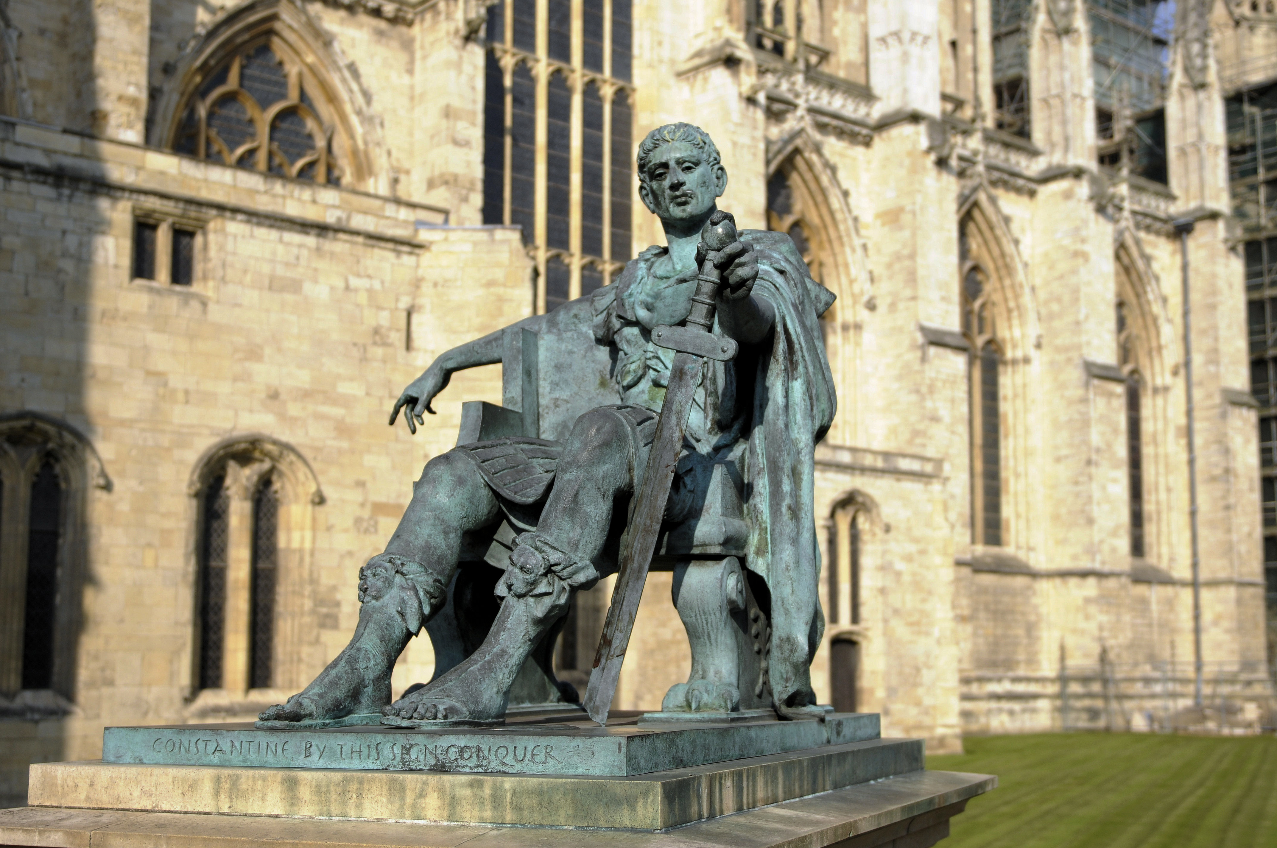 Bronze statue of Constantine the Great outside York Minster, England. The Emperor looks down upon his broken sword, which forms the shape of a cross. The statue was erected by the York Civic Trust and unveiled on 25 July 1998. (More facts)